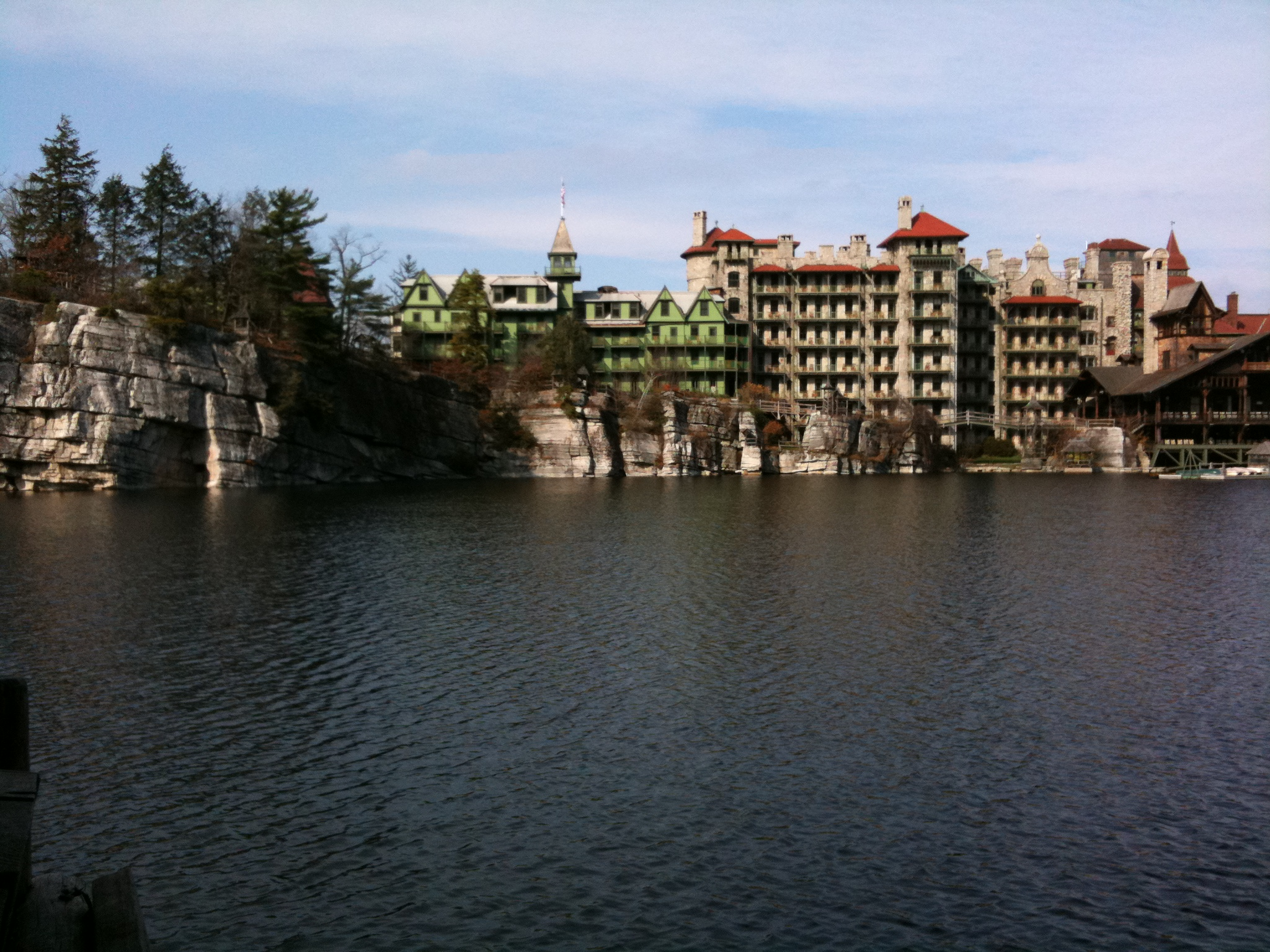 Mohonk Mountain House in the fall